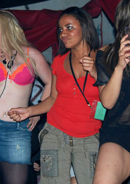 Actress Larissa Wilson On The Stage in Skins Party 2007.